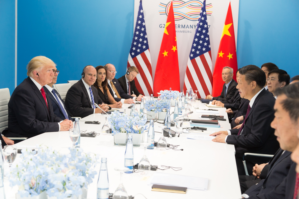 President Donald J. Trump and President Xi Jinping | July 8, 2017 (Official White House Photo by Shealah Craighead)